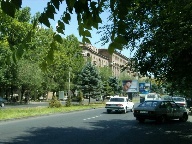 Sayat Nova Avenue, Yerevan, Armenia.